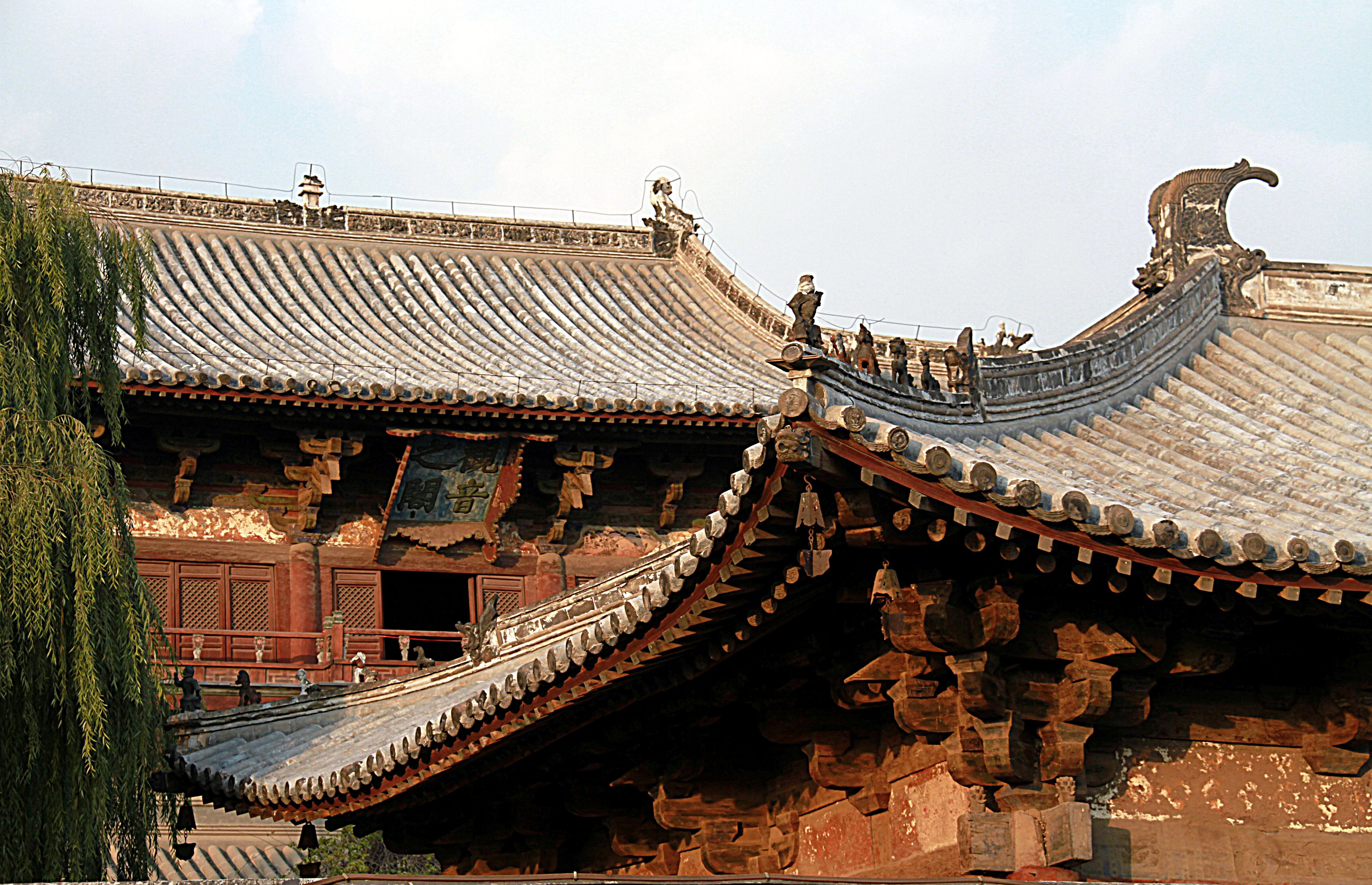 Photograph of a roofscape of the Dule Temple in the town of Jixian, in Ji County, Tianjin, China. Front: roof of the Shan Gate, back: roof of the Guanyin Pavilion.